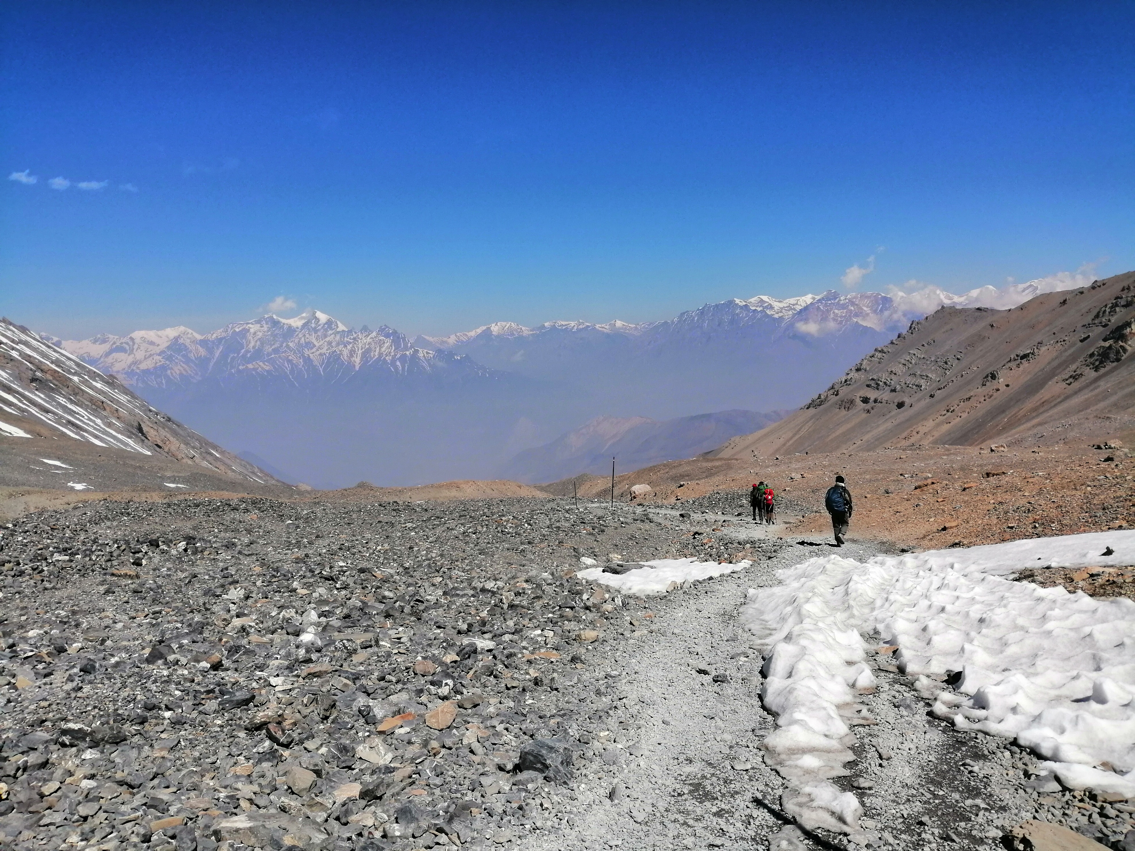 Arial view from Thorong la pass